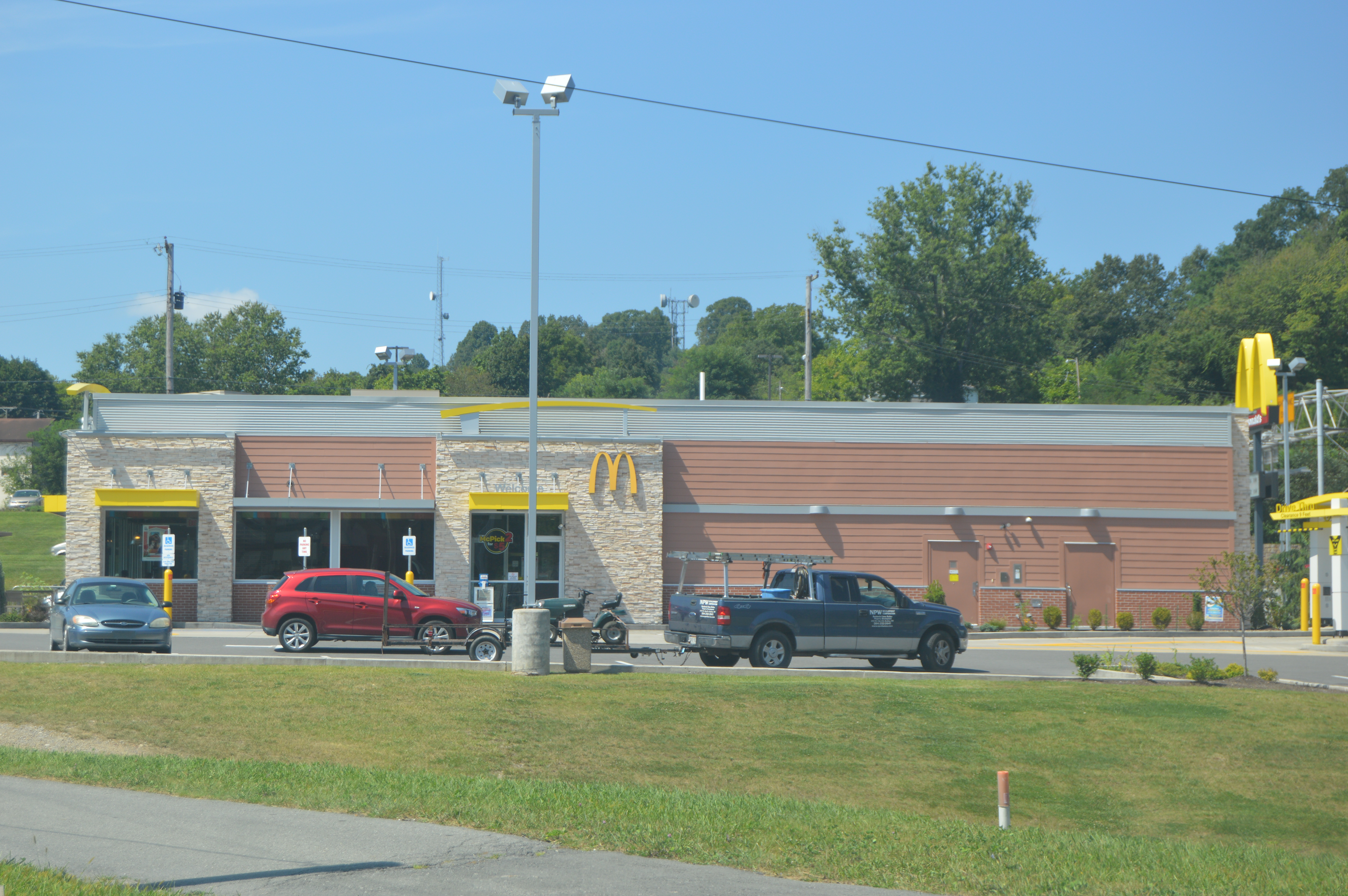 Eastern side of the McDonald's restaurant located at 2930 Robert C. Byrd Drive (West Virginia Route 16) in Beckley, West Virginia, United States. Built in 2014, it occupies the site of the Beckley Feed and Hardware Company, which was listed on the National Register of Historic Places in 2001; although destroyed in 2013, it has not yet been delisted from the Register.